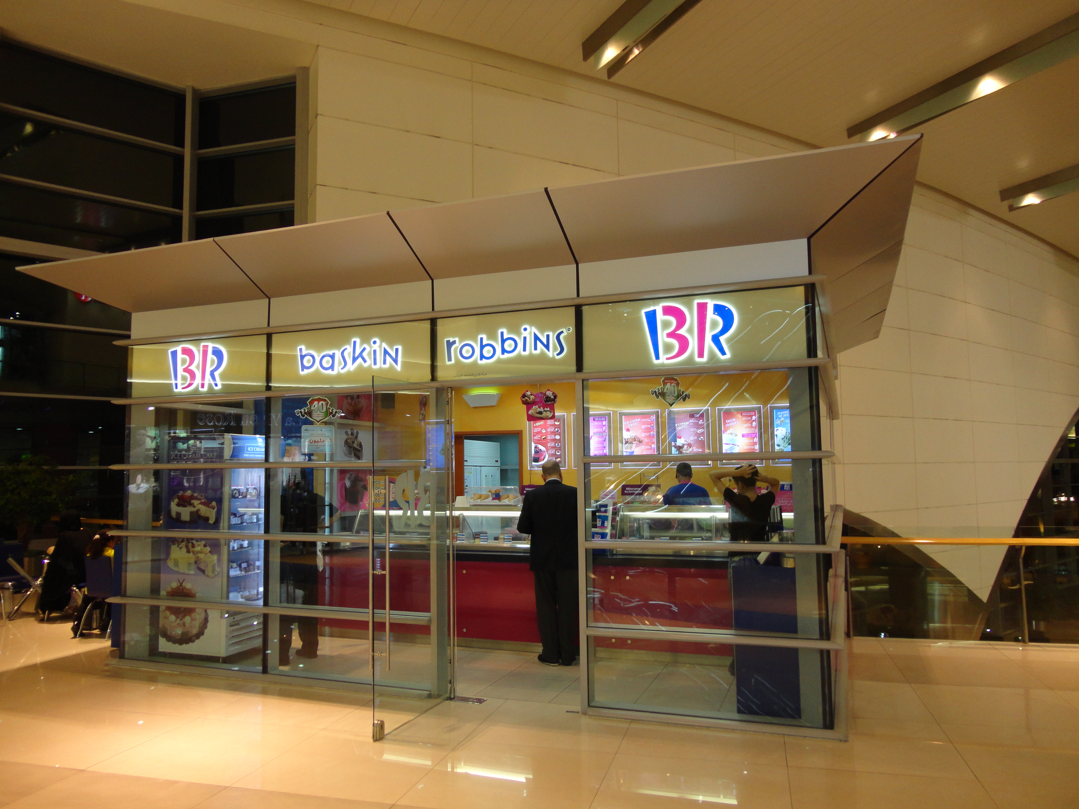 a Baskin-Robbins store in reef mall.